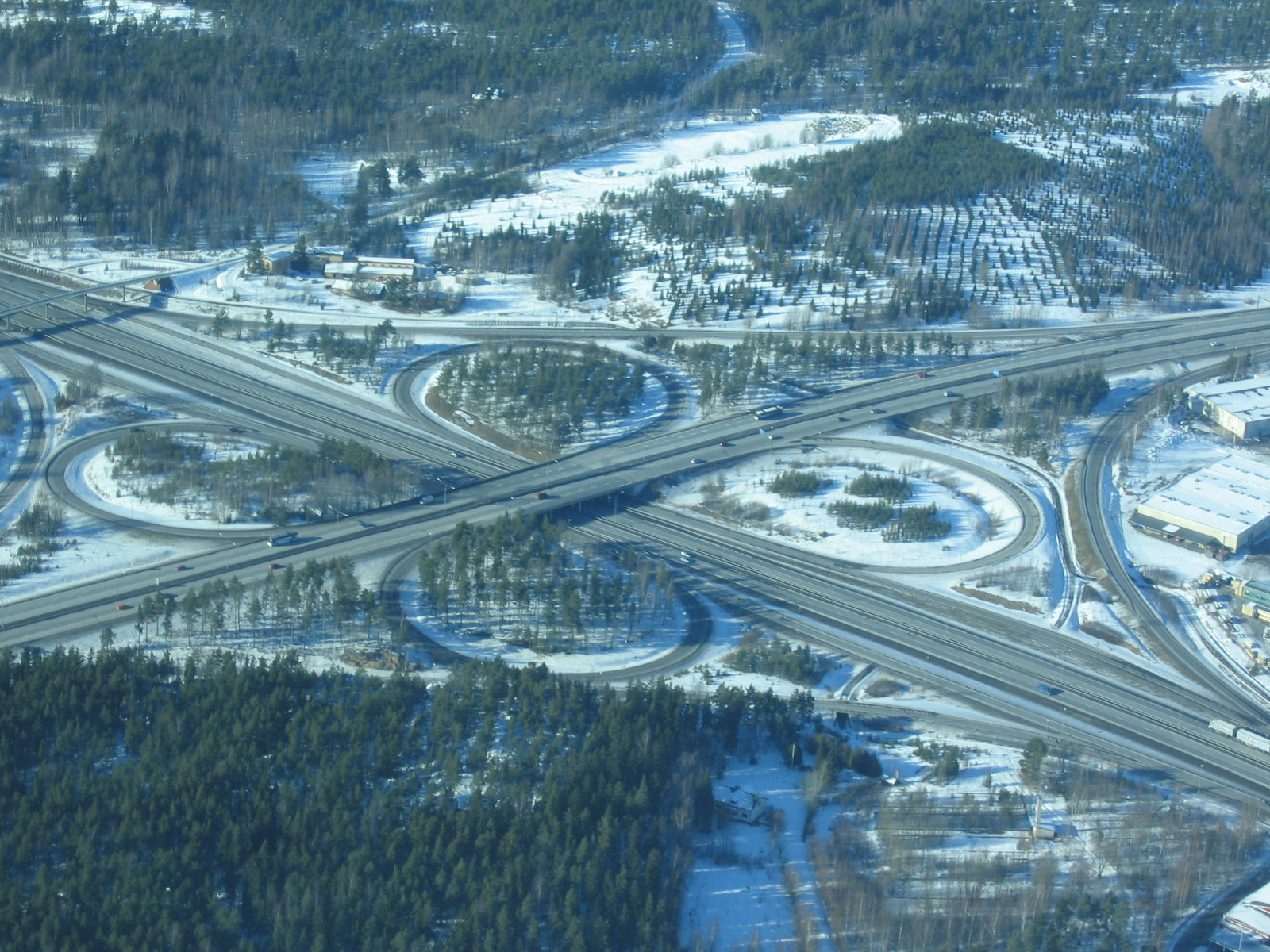 Kärsämäki interchange (between National road 9 and National road 40) in Turku, Finland from air